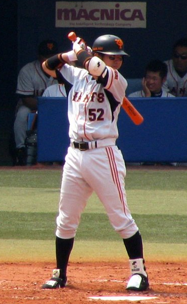 Manabu Iwadate, infielder of the Yomiuri Giants, at Yokohama Stadium.